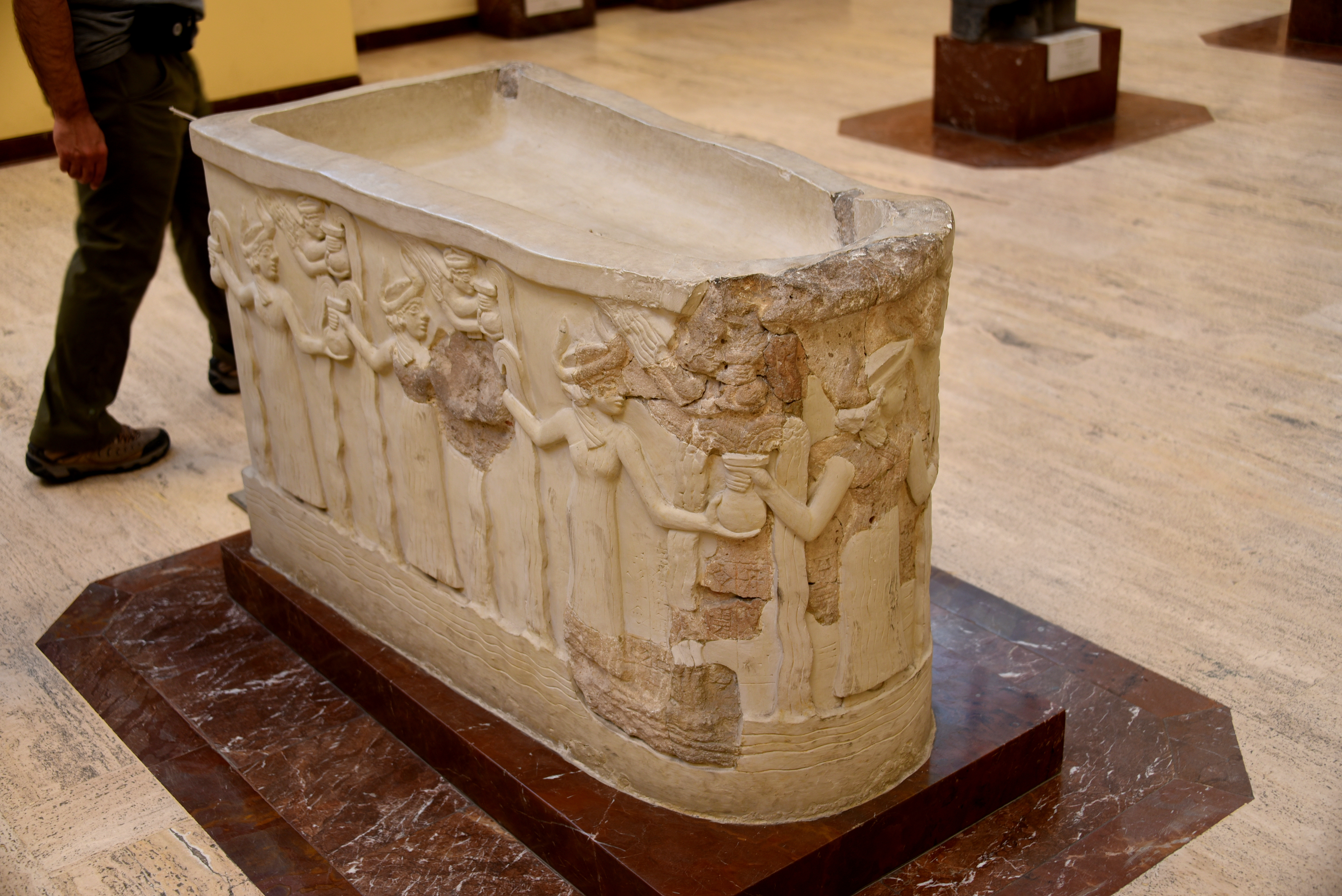 Sacred basin, a gift from Gudea, ruler of Lagash, to the temple of Ningirsu. The basin was inside the temple and might well have contained scared water for ritual purposes. Extensively reconstructed. From Girsu (modern-day Tell Telloh), Southern Mesopotamia, Iraq. Regin of Gudea, 2144-2122 BCE. Ancient Orient Museum, Istanbul.